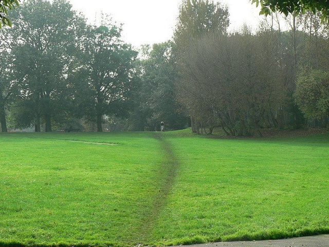 Diagonal path, Recreation Ground, Burley The autumnal grass is worn by the regular passing of feet.